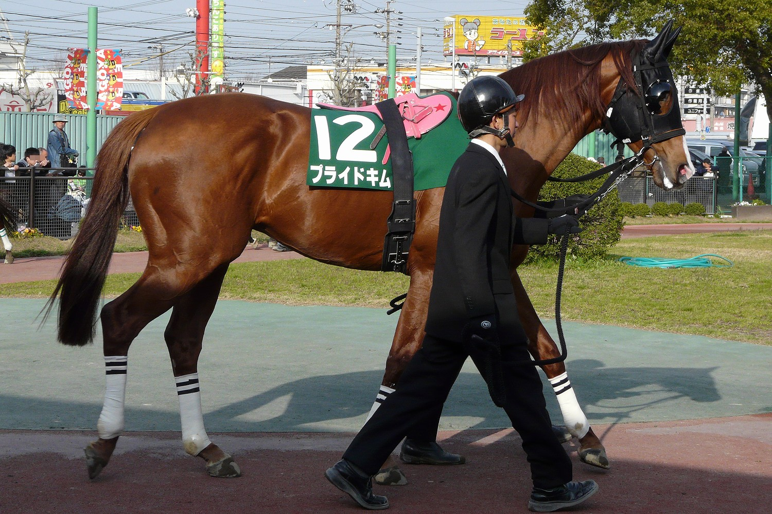 Pride-Kim20100317